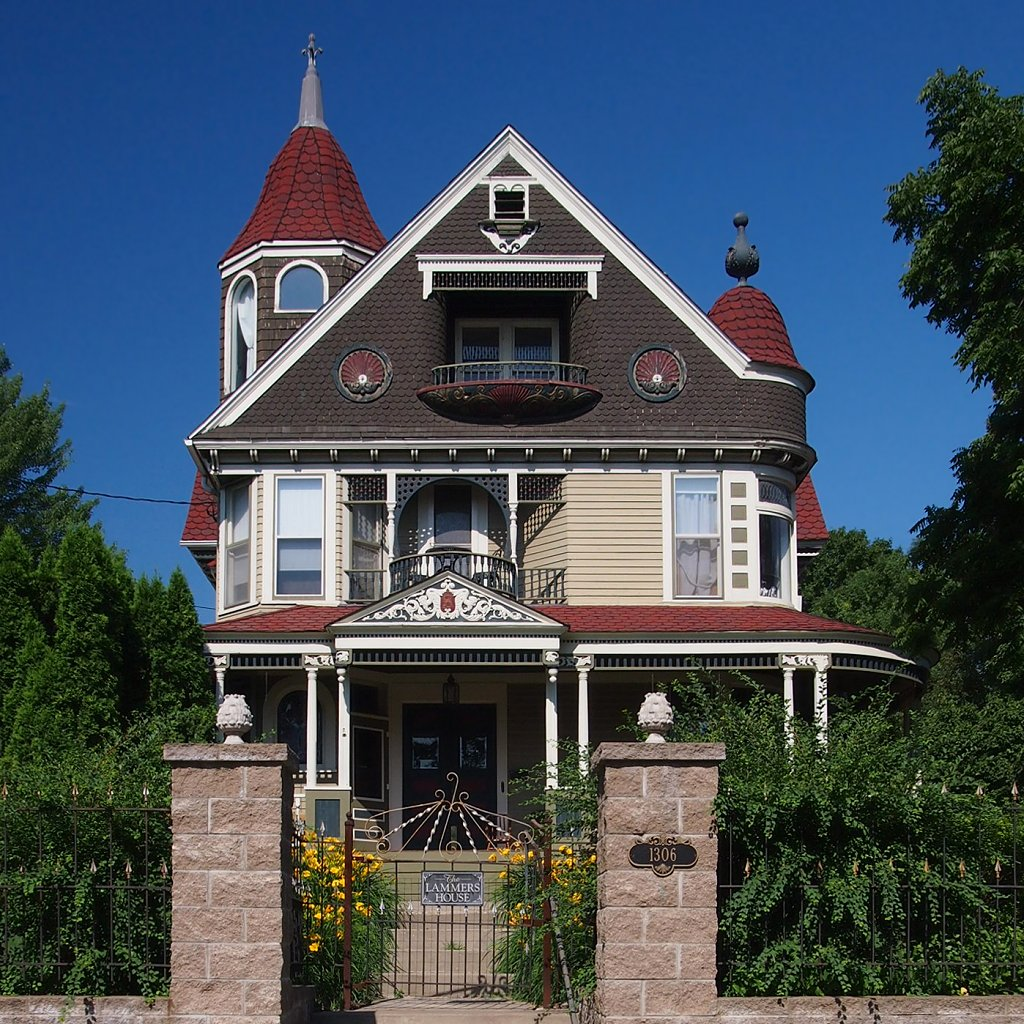 Albert Lammers House, 1306 S 3rd St, Stillwater, Minnesota, USA. Viewed from the east, lightly corrected for tilt distortion.